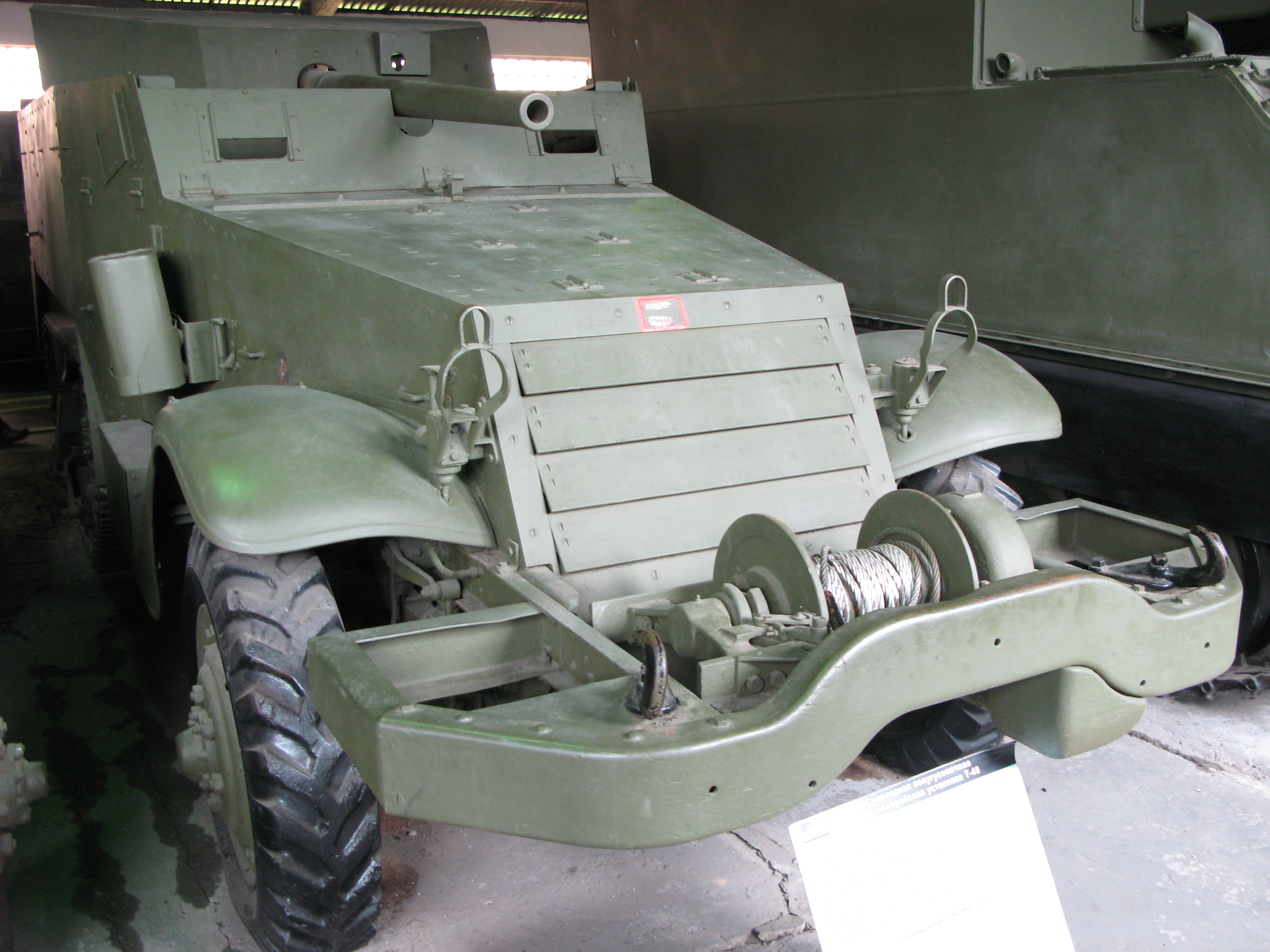 T-48 (57mm Gun Motor Carriage T48) in Kubinka Tank Museum.